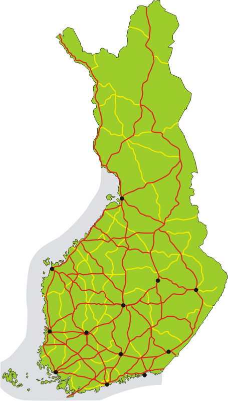 Map of main roads in Finland. 1st class main roads (numbers 1–29) are red, 2nd class main roads (numbers 40–98) yellow. Black dots show the 12 biggest urban areas.